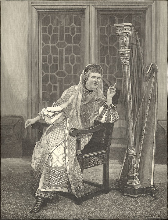 Queen Elisabeth of Romania